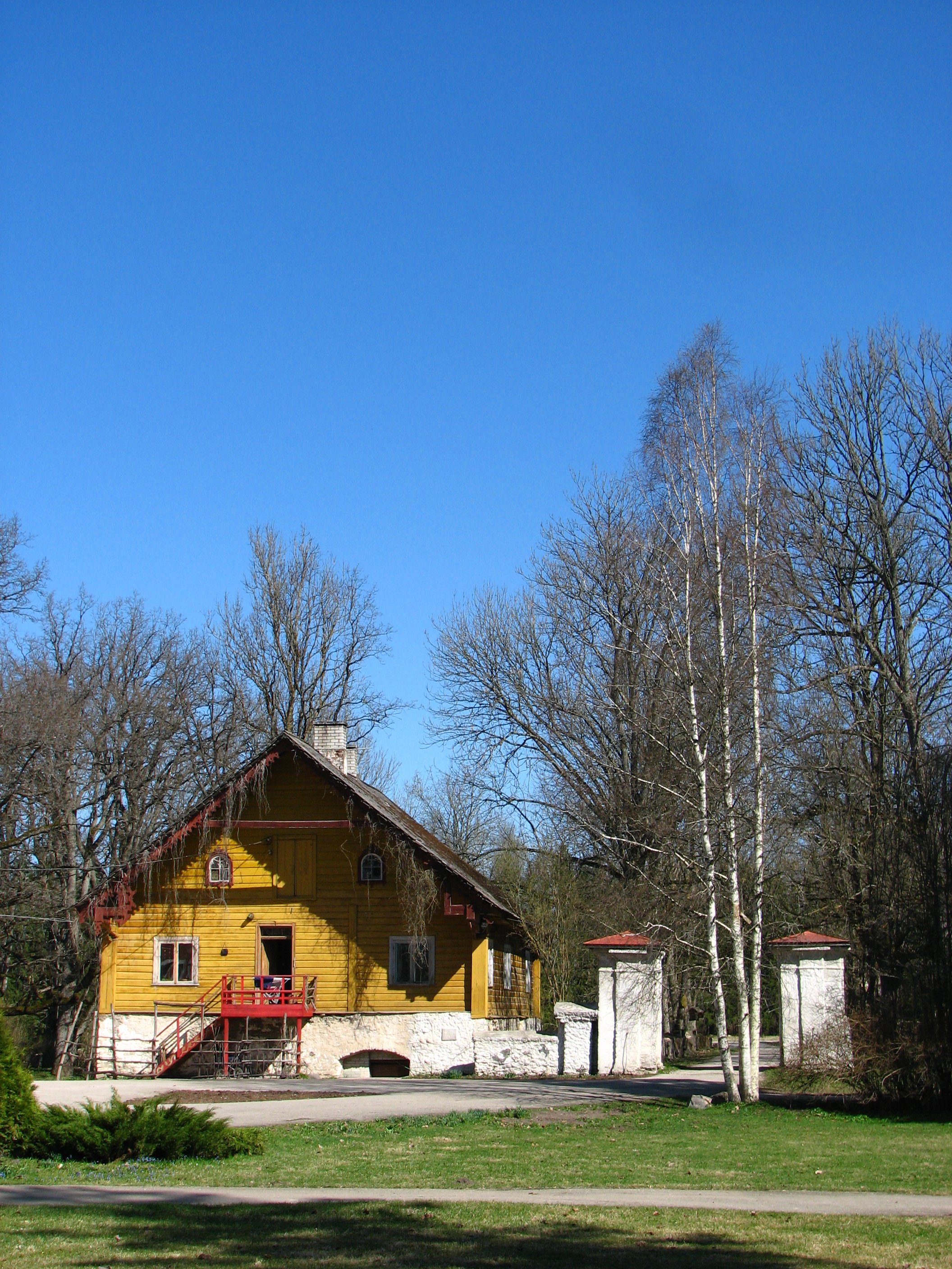 Part of the Vodja manor ensemble (Järva County, Estonia)